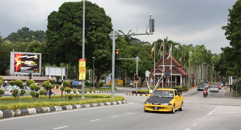 UKM University in Malaysia